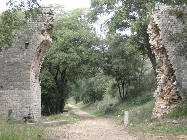 Aqueduct Antibes Bouillide